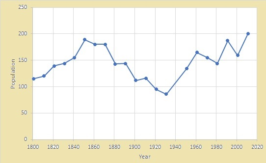 wentworth